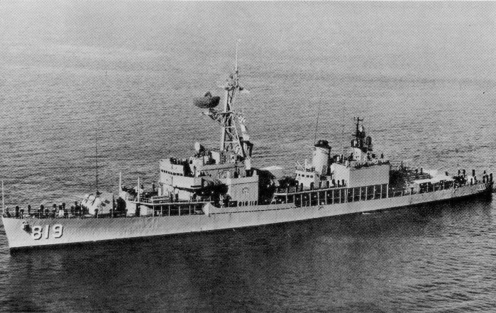 The U.S. Navy destroyer USS Holder (DD-819) in the early 1970s.